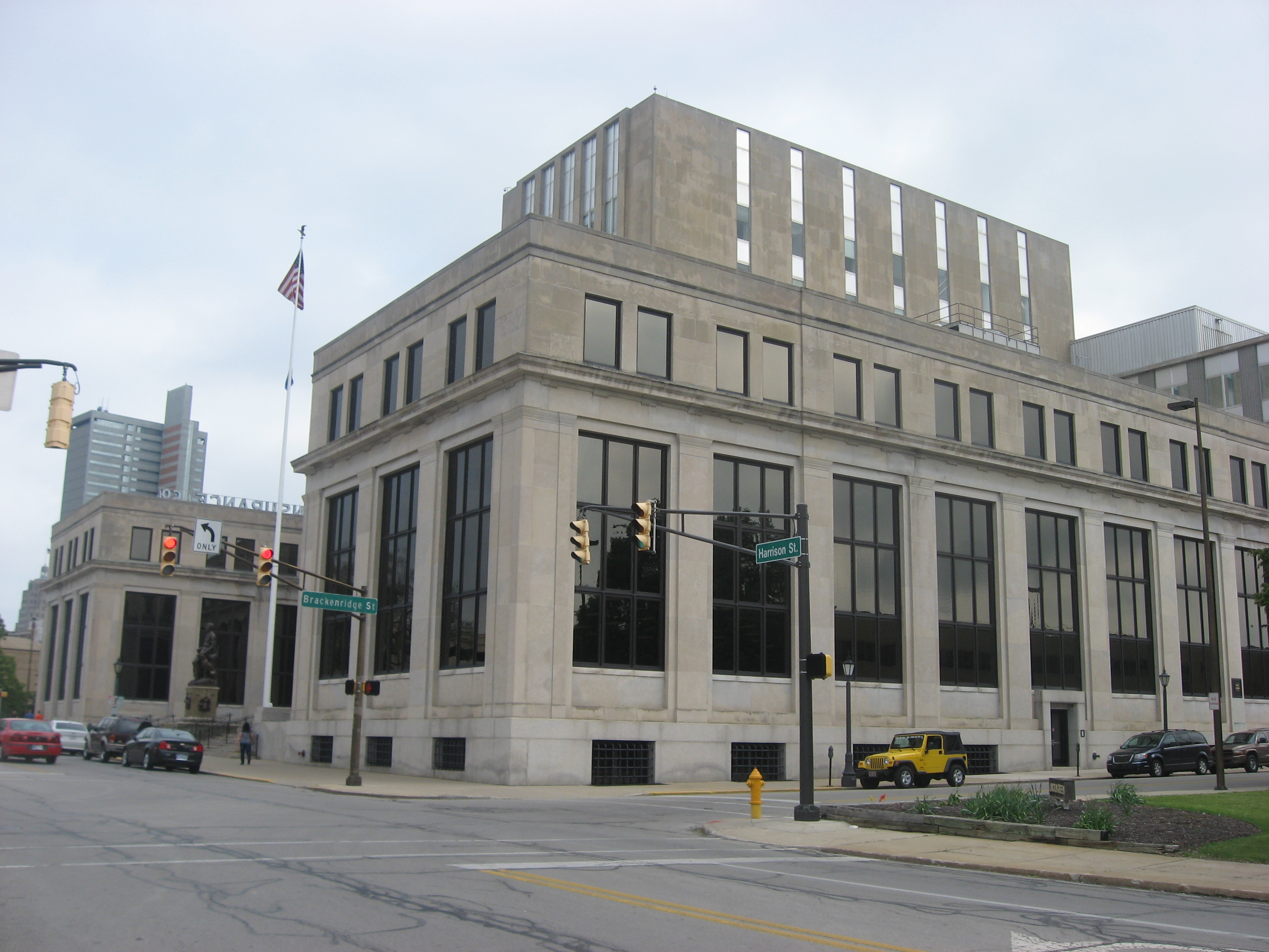 Front and southern side of the Lincoln National Life Insurance Company Building, located at 1301 S. Harrison Street in Fort Wayne, Indiana, United States. It was built in 1923.